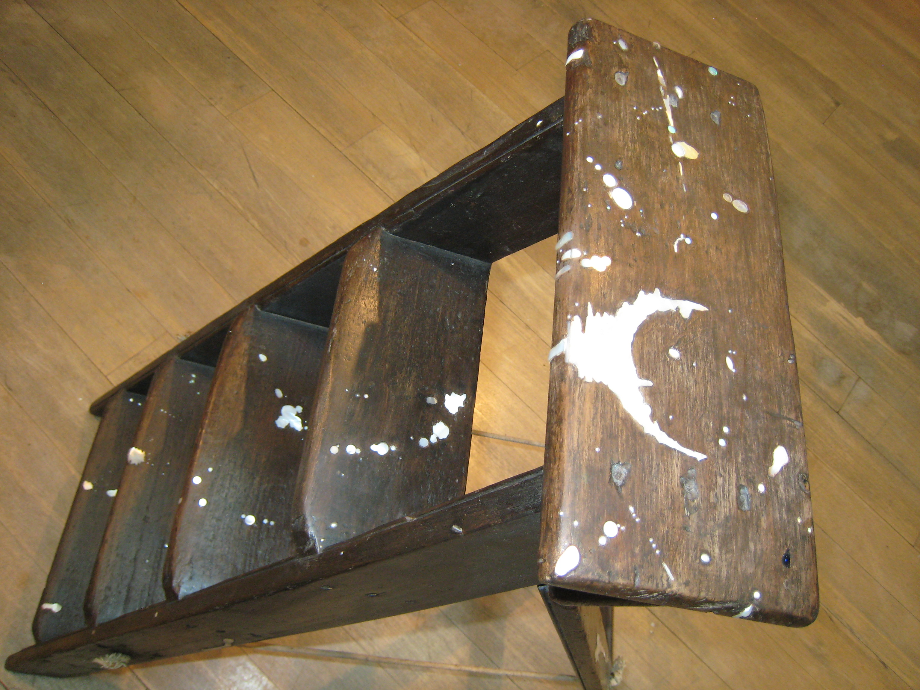 Part of the 2017 exhibition "When we loved you best of all" by Susan Collis at the Touchstones art gallery, Rochdale. "White lies" (2006): a step ladder. What appear to be paint spatters are inlays of precious materials including mother-of-pearl, pearls, opals and diamonds.